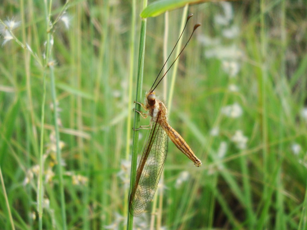 "Photo of an owlfly. Exact taxonomic classification unknown. Picture taken at Indian Institute of Science, Bangalore, India."